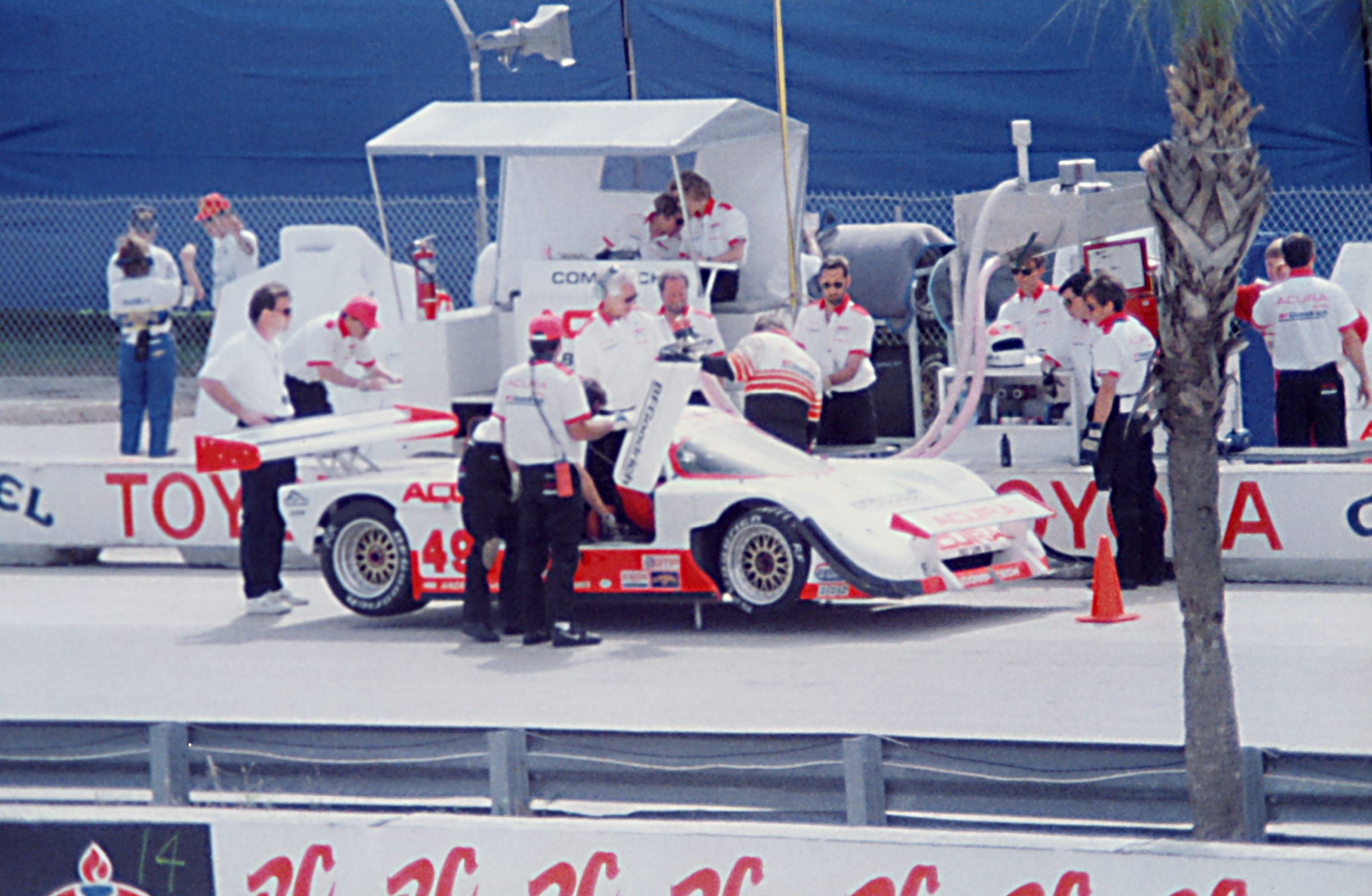 Comptech Racing's Spice SE91-Acura in the pits during practice for the 1992 IMSA Miami Grand Prix. The car was driven by Parker Johnstone and Dan Marvin. This photograph was taken with a Canon AE-1, using Kodak Ektar 1000 film.